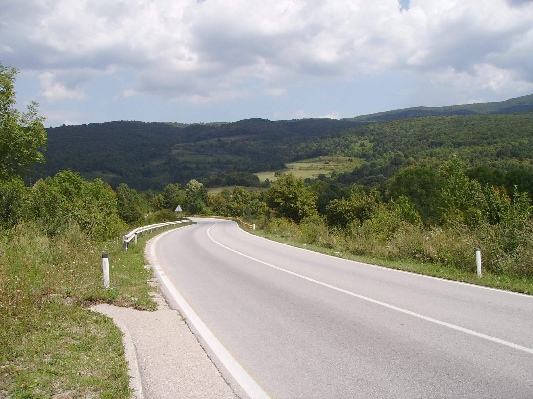 Bosnia, Magistral road Nr. 5 between Bihać and Bosanski Petrovac.